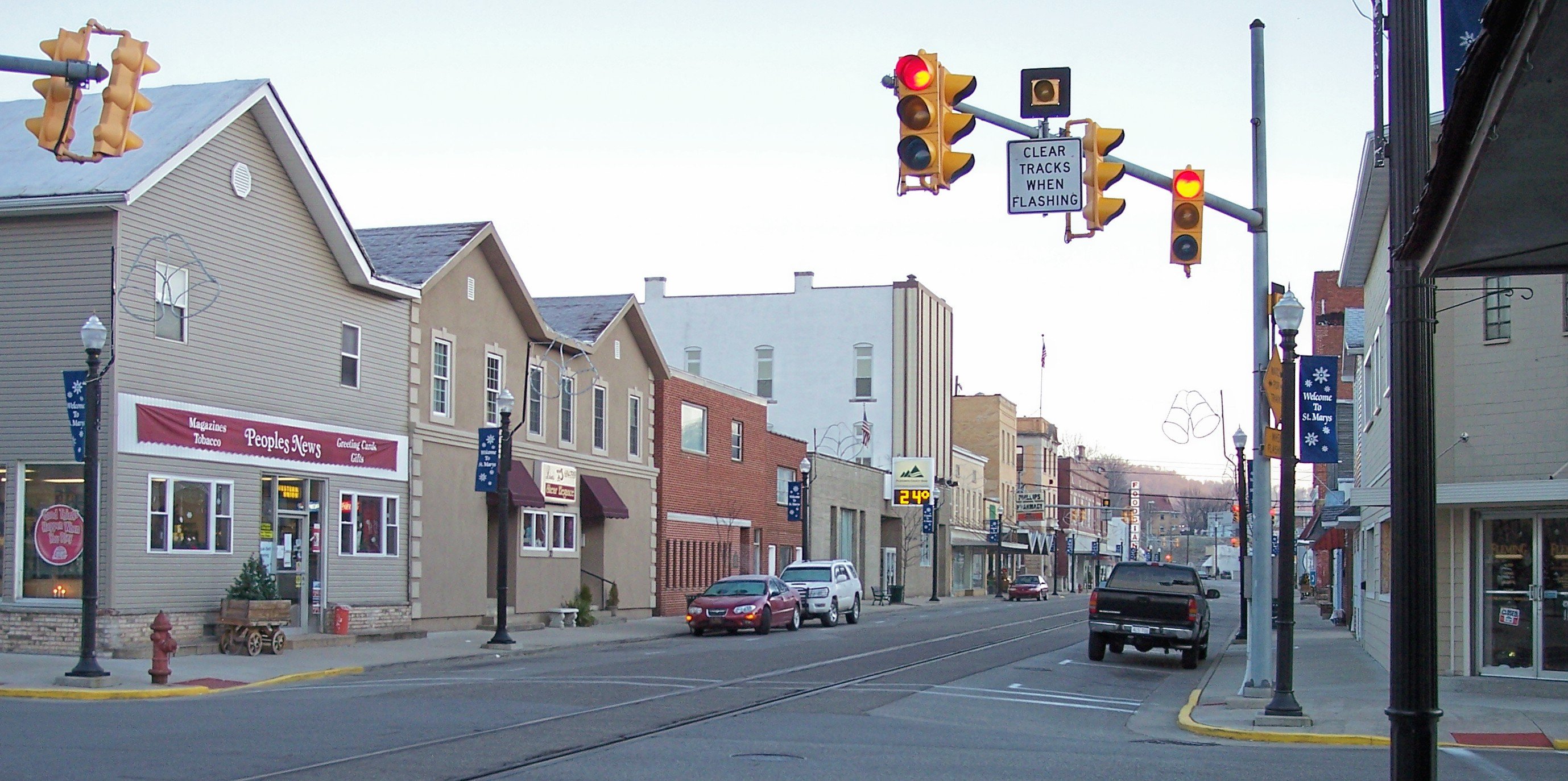 2nd Street in the central business district of St. Marys, West Virginia